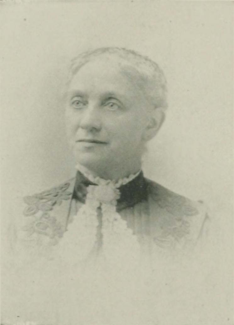 image from File:A woman of the century.djvu published 1893